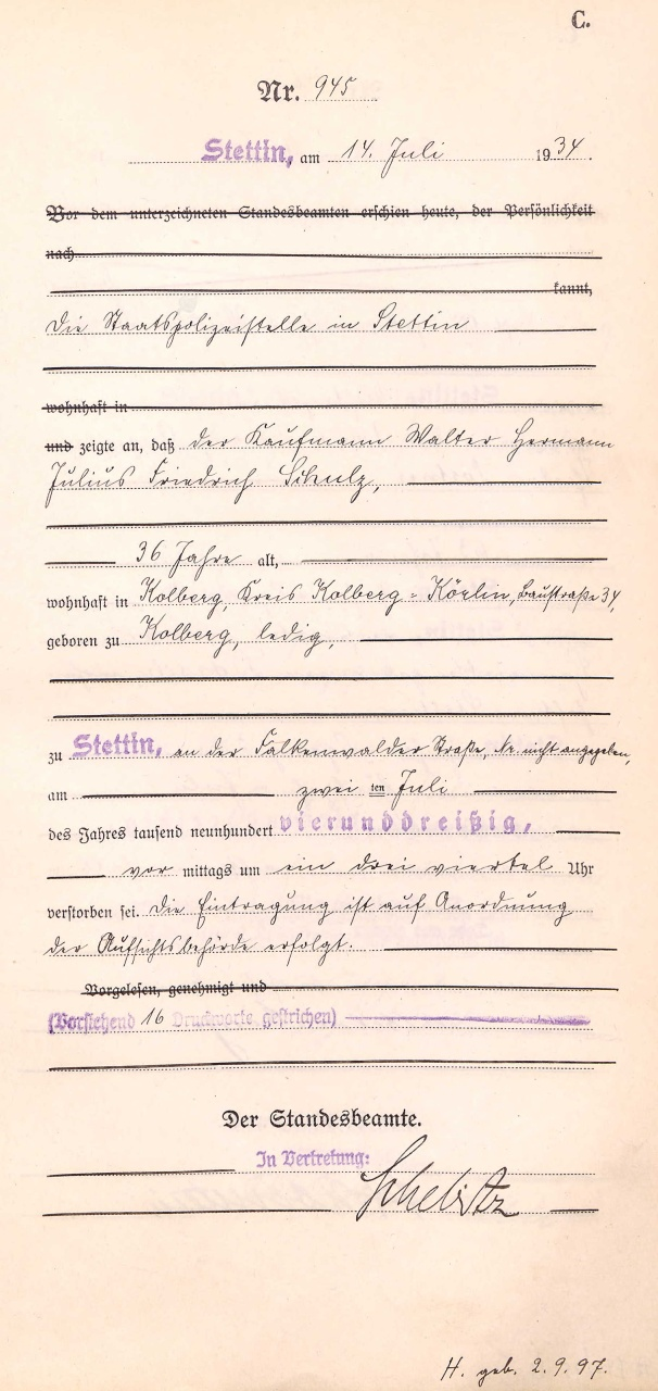 Death Certificate of Walter Schulz (1897-1934) a victim of the political purge of the National Socialist Regime known as "Night of the Ling Knives".